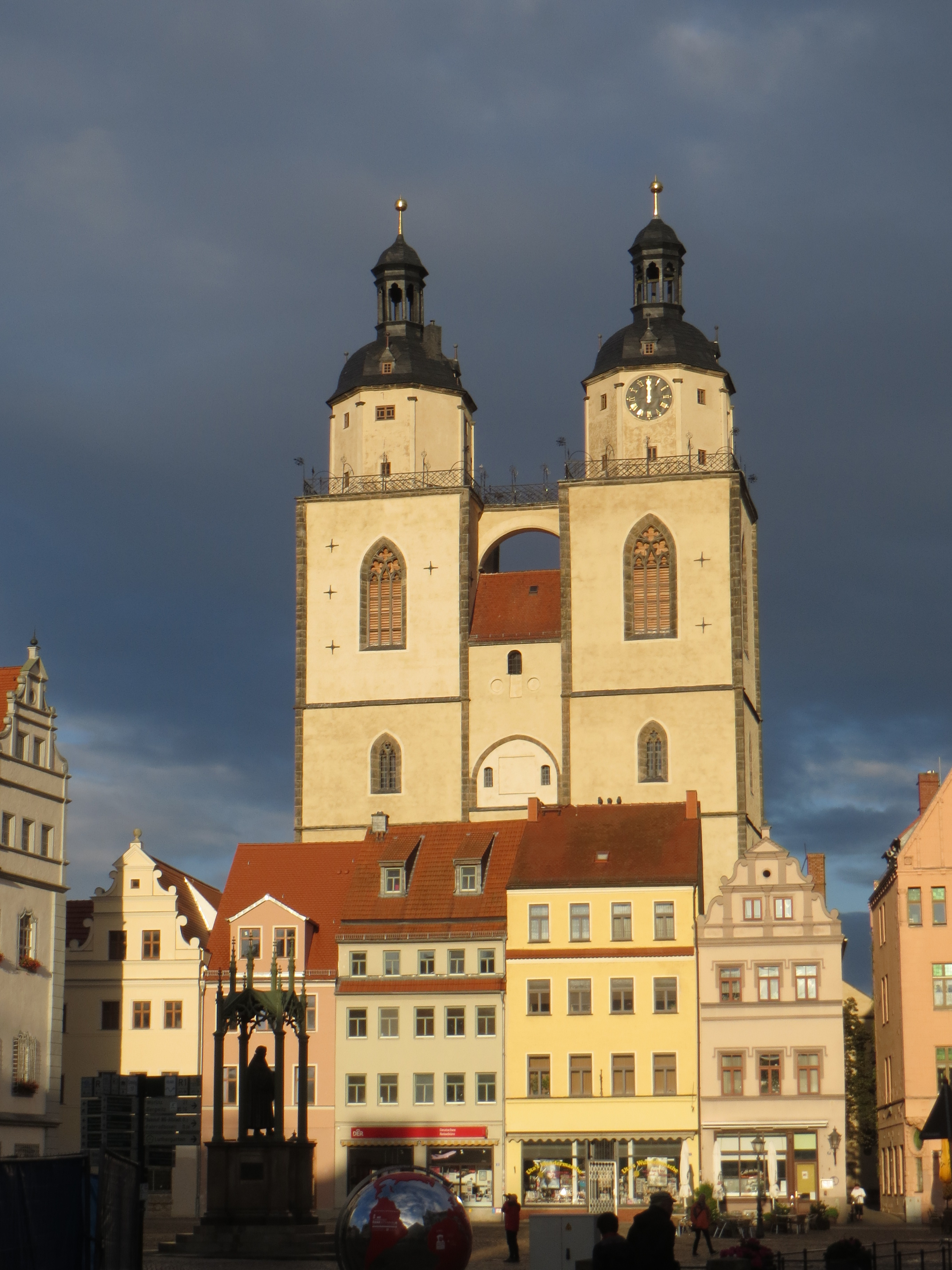 Stadtkirche Wittenberg from the Market square in the evening sun